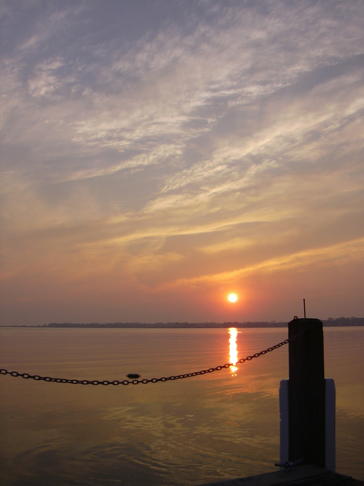 Sunset in Kill Devil Hills, North Carolina.